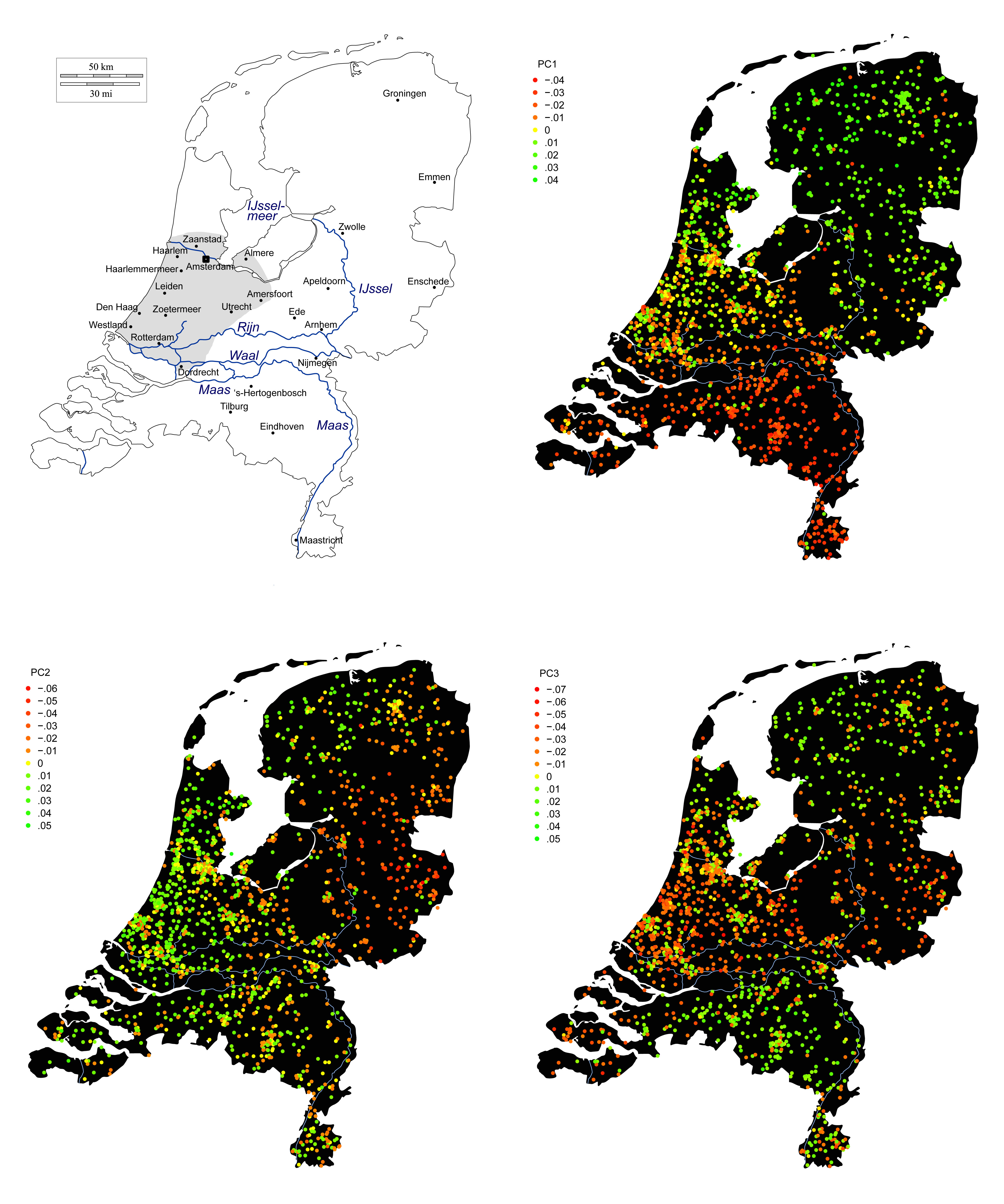 The three largerst patterns of genome-wide SNP variation in the Netherlands.